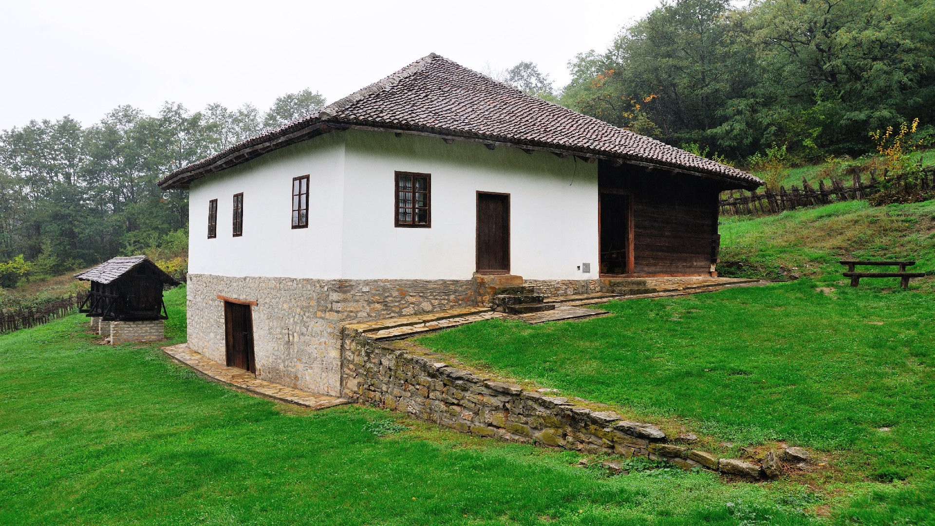 General look of birthhouse of Živojin Mišić in Struganik